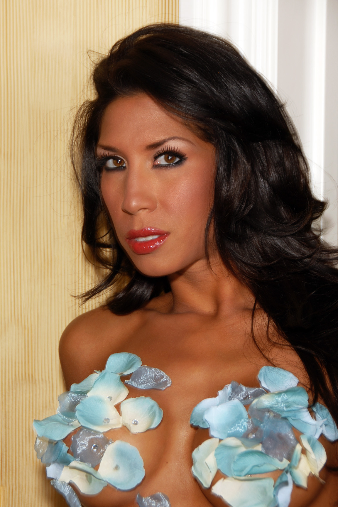 Kayla Carrera, Beverly Hills, CA on March 28, 2009 - Photo by Glenn Francis of